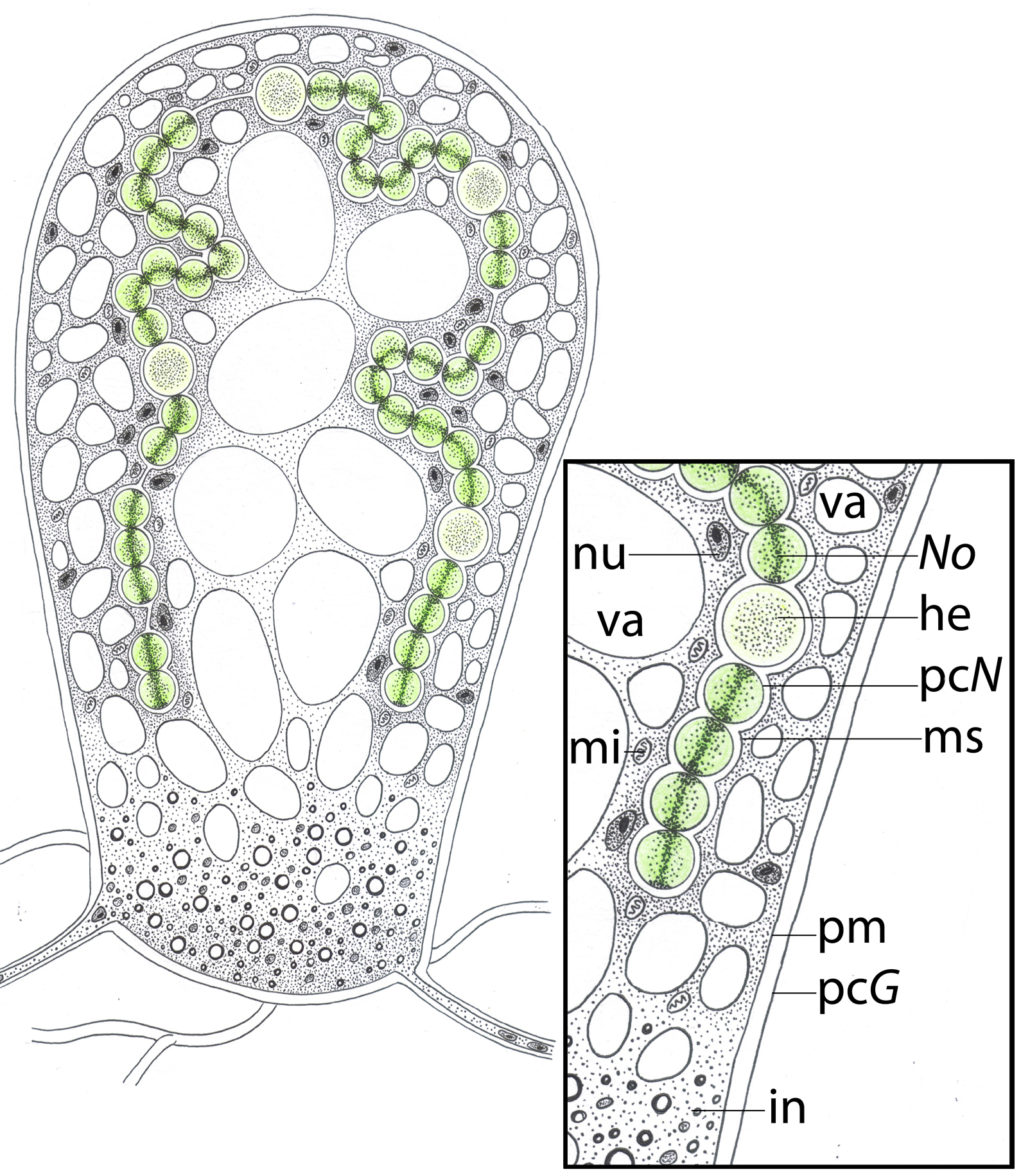 Illustration of a Geosiphon pyriforme siphonal bladder. pcN:Nostoc cell wall, N:Nostoc filament, he:heterocyst, simbiosome membrane, pm:plasma membrane, pcG:Geosiphon cell wall, nu:nucleus, mi:mitochondrion, in:cytoplasmatic inclusions, va:vacuole.